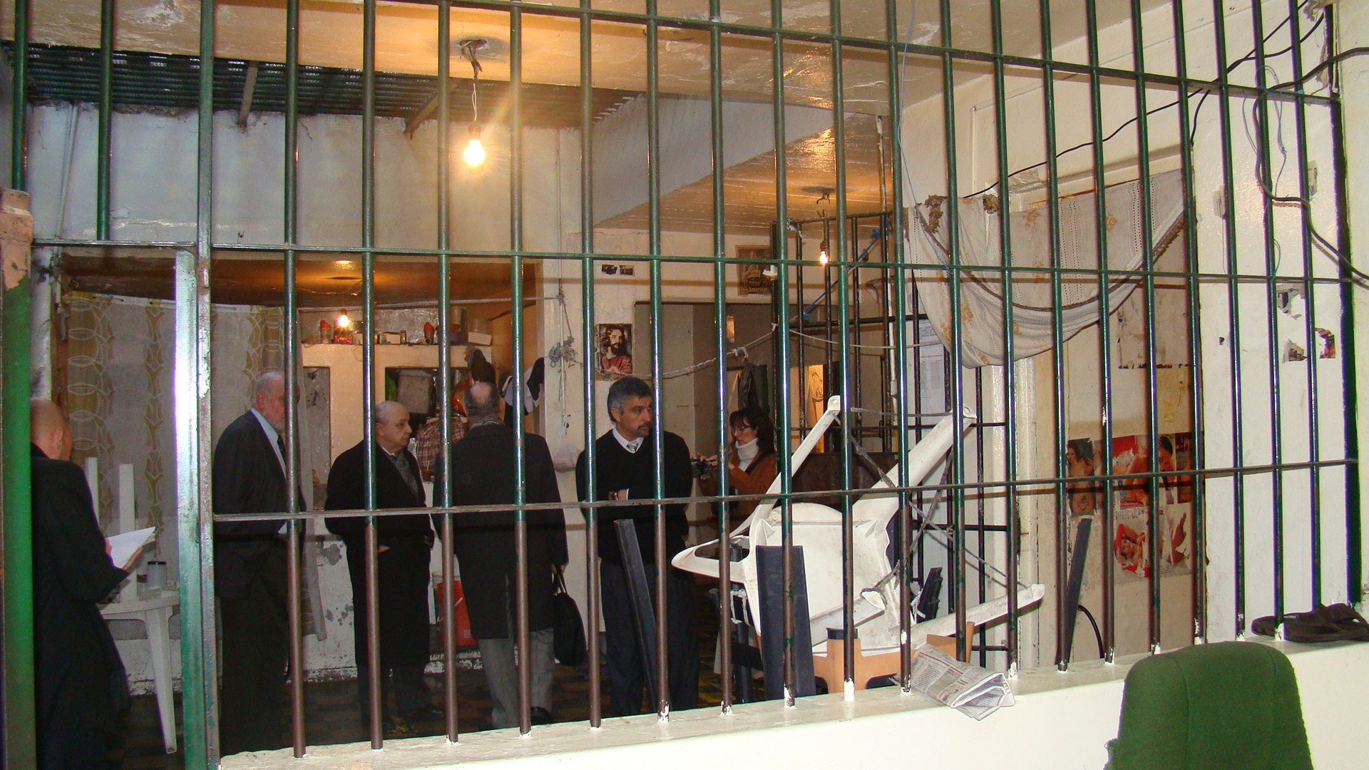 Traveled by Center Clandestino "Hell" 2